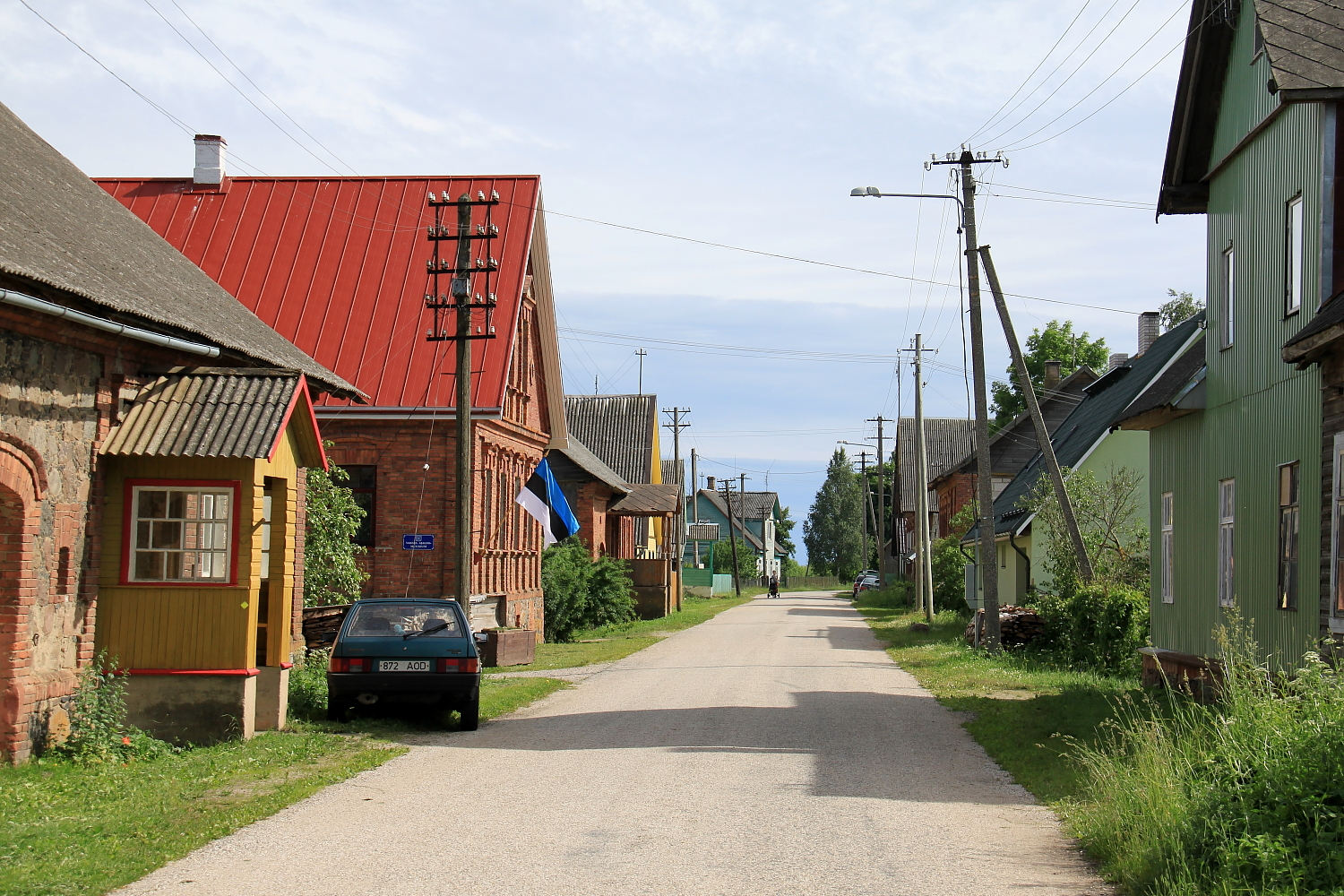 Varnja